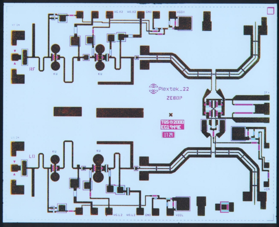 Example of a GaAs MMIC (2-18GHz upconverter)